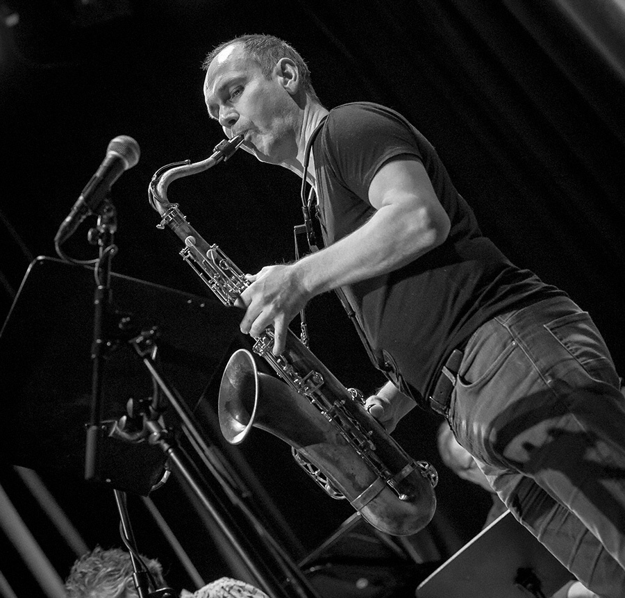 Bendik Hofseth performs with Mike Mainieri at Cosmopolite Scene in on 04 May 2016. Backed by Jazzcode and later in the concert by Cosmopolitans. The musicians had earlier that week recorded three albums in a studio in Oslo.Lineup:Mike Mainieri (vibraphone)Bendik Hofseth (tenor saxophone)Jørn Øien (piano)Bruno Raberg (double bass)Sidiki Camara (percussion)Carl Størmer (drums)Jacob Young (guitar)Helge Iberg (piano)Paolo Vinaccia (percussion)